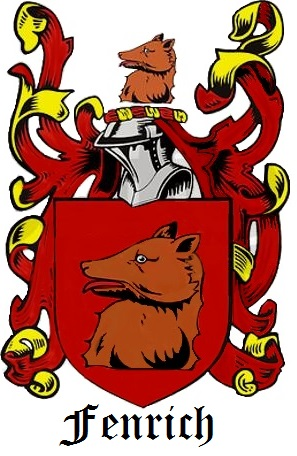 Example of an european-style full coat of arms.